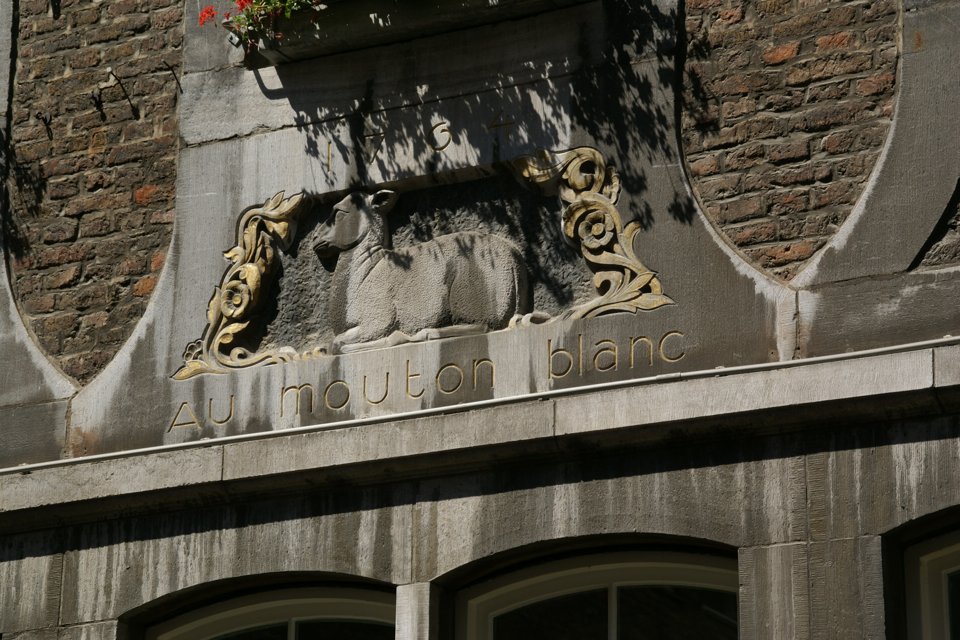 Frieze as sign of the bar "Au Mouton Blanc" at Kersenmarkt in Maastricht, Netherlands